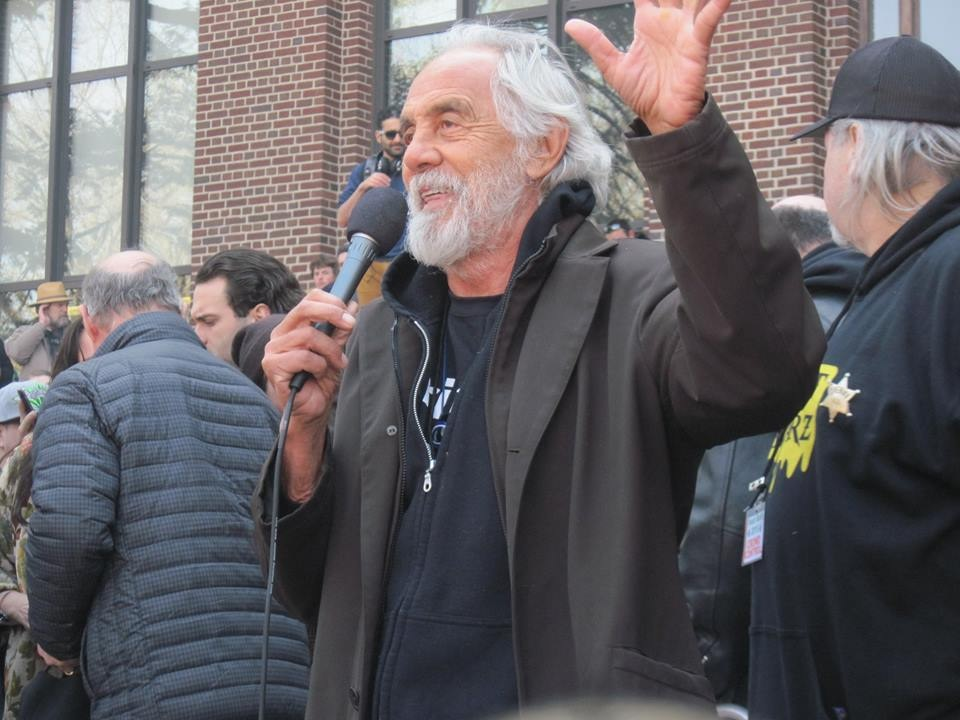 Tommy Chong speaks at Hash Bash in Ann Arbor, Michigan in April of 2015.